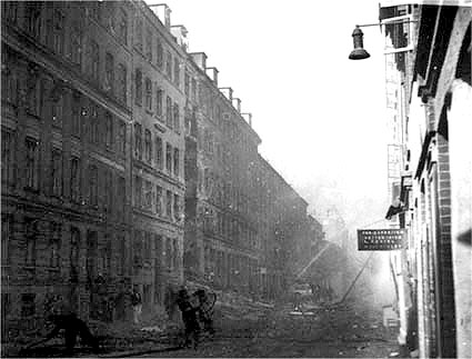 The British bombing of Shellhuset (Gestapo HQ), in Copenhagen, 21 March 1945